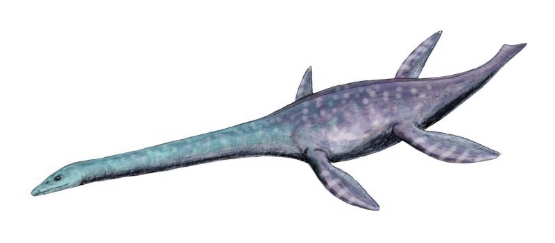 Attenborosaurus conybeari, a plesiosaur from the Early Jurassic of England, pencil drawing